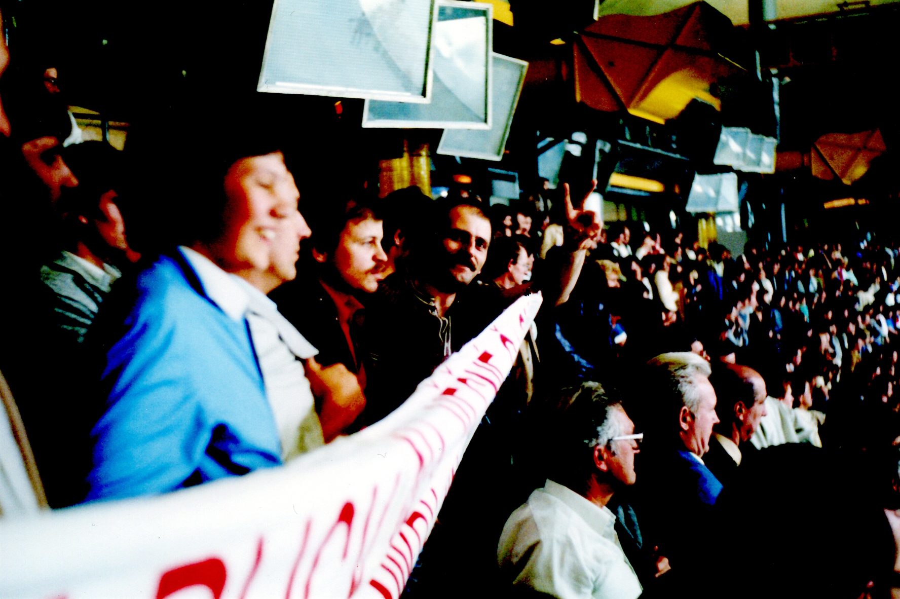 During the 1983 hockey world championships match Czechoslovakia - Soviet Union in Munich (Germany) Czeck emigrants are showing a transparent protesting against the Russian occupation of their territory since the suppression of the Prague Spring.